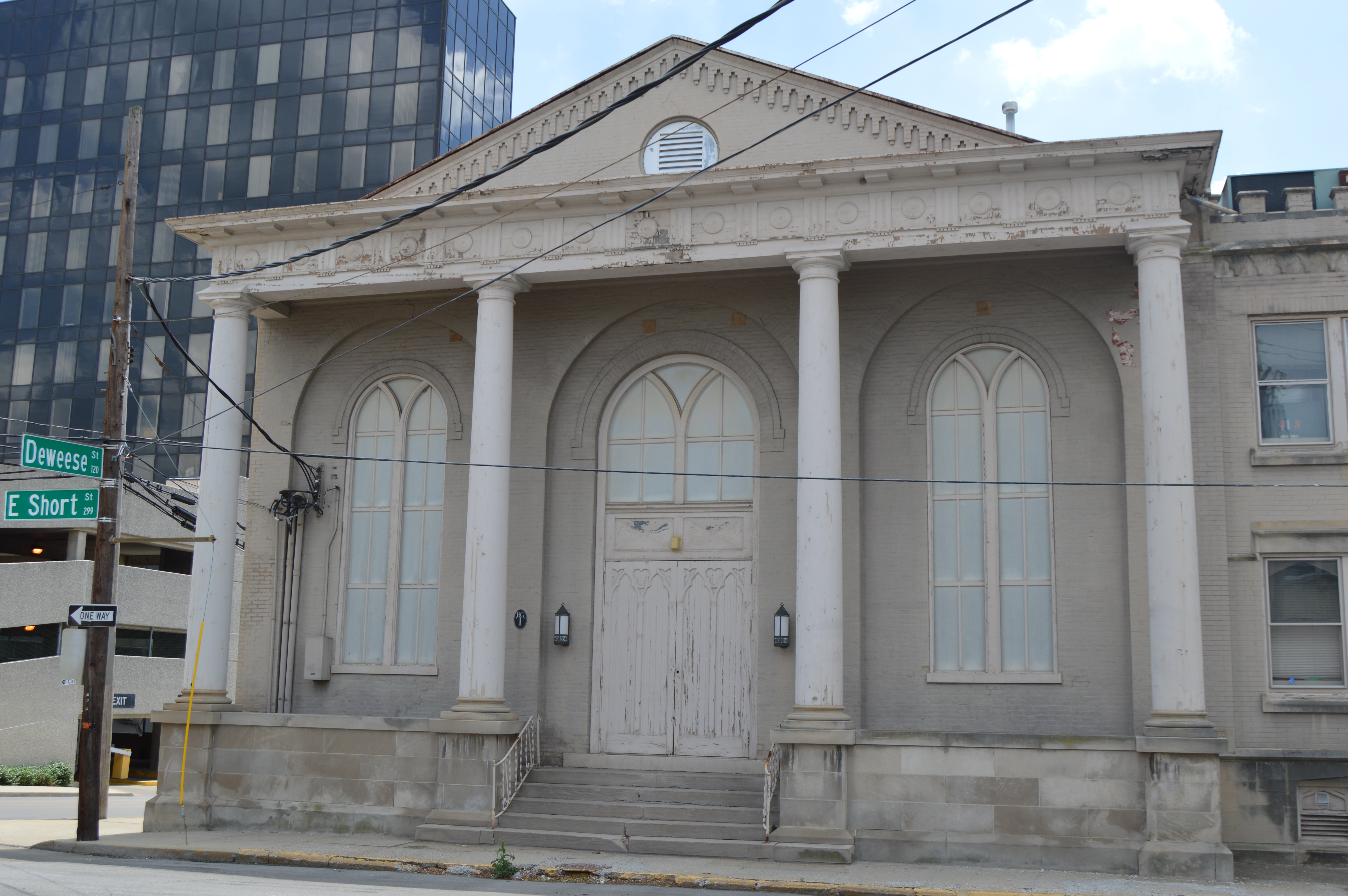 Front of the former First African Baptist Church (now the childcare center for the nearby Central Christian Church), located at 264-272 E. Short Street in Lexington, Kentucky, United States. Built in 1850, it is listed on the National Register of Historic Places.